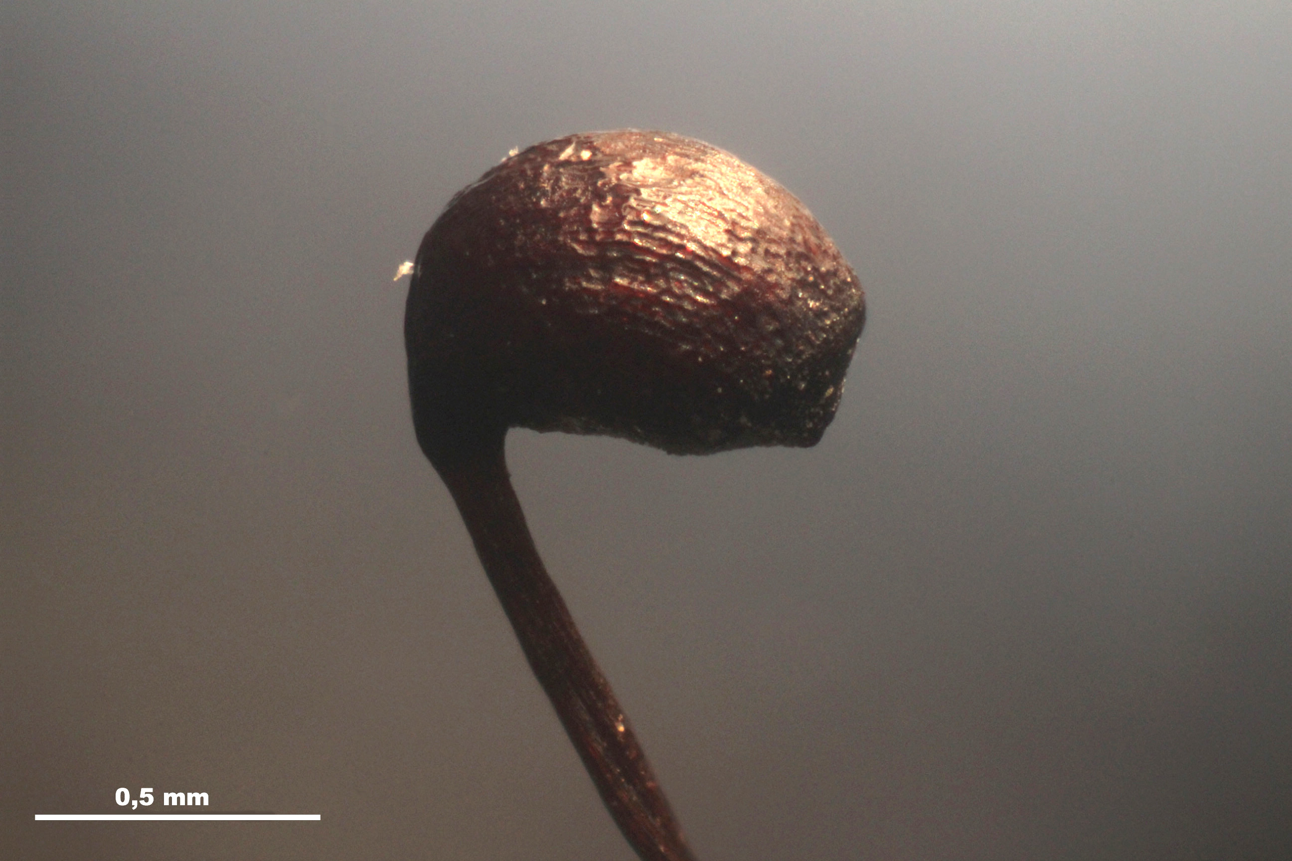 Catoscopium nigritum